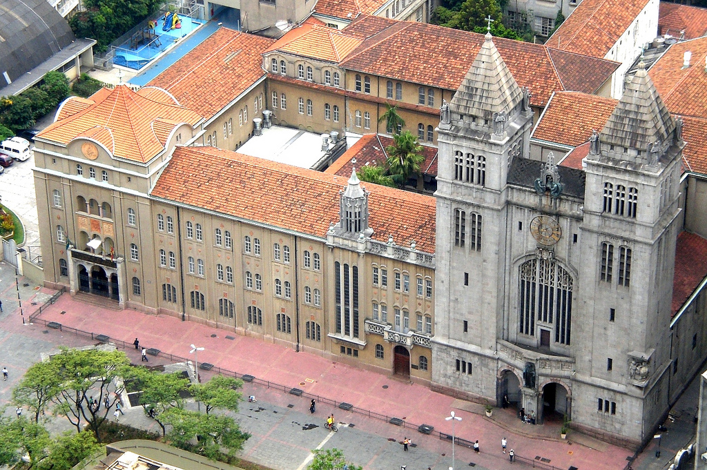 View of São Bento Monastery in São Paulo, Brazil